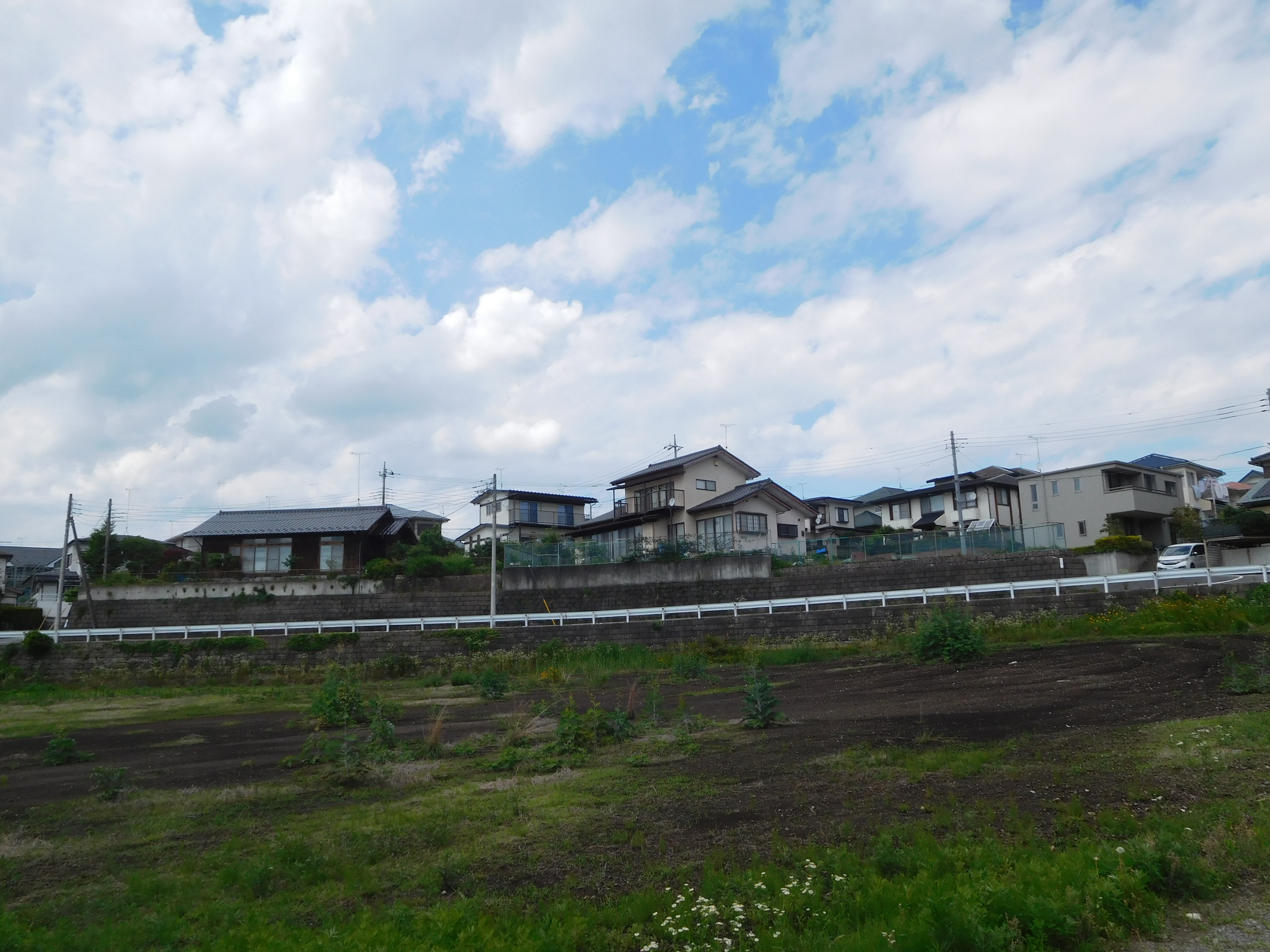 This is a landscape of Nishinomiya 1 chome, Utsunomiya city, Tochigi prefecture, Japan.